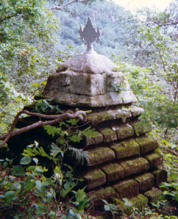 Gopuram of Malluru Narasimha Temple